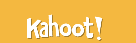 Logo from Kahoot.it